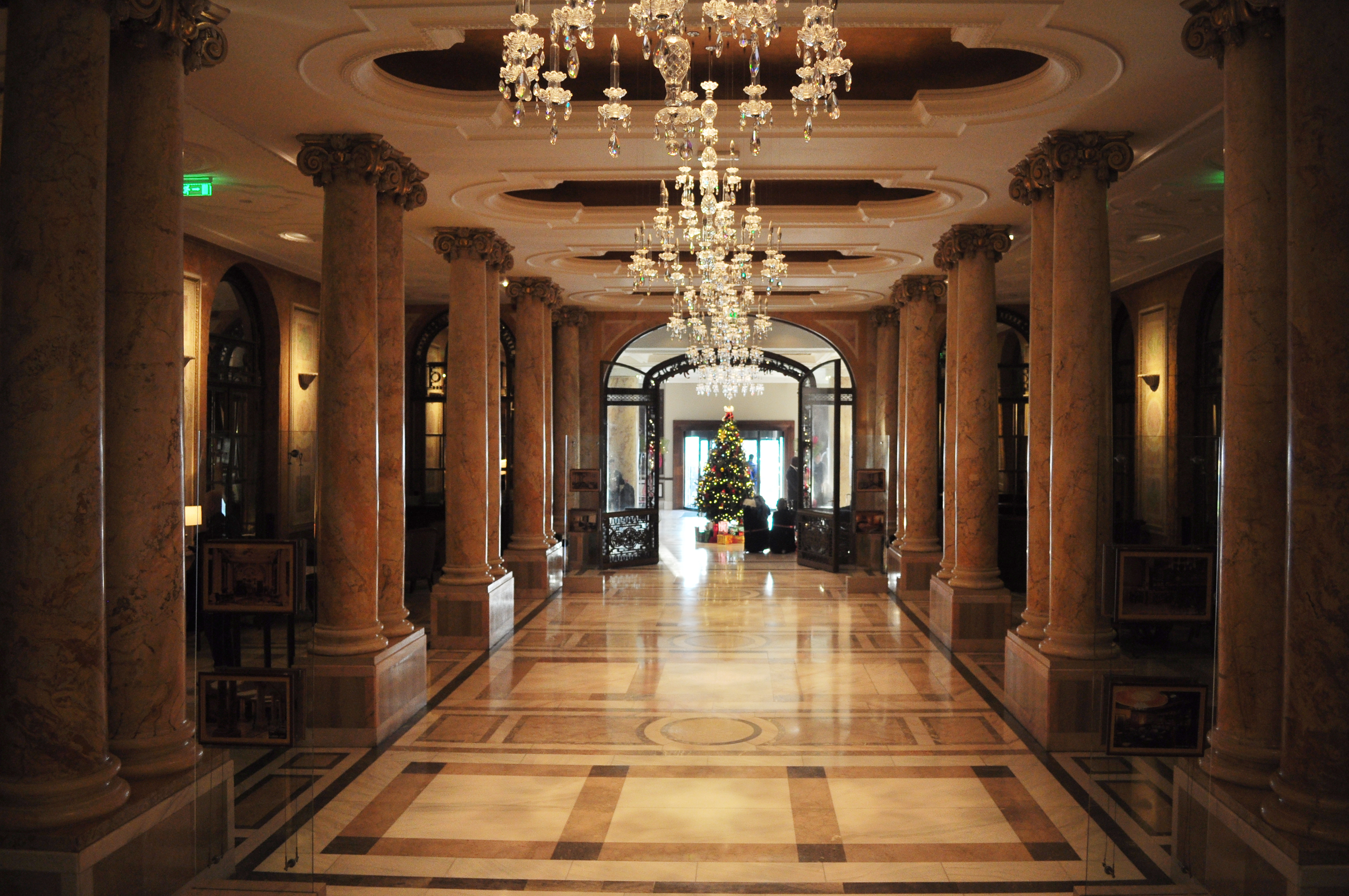 Lobby, Athénée Palace Hotel, Bucharest, Romania.